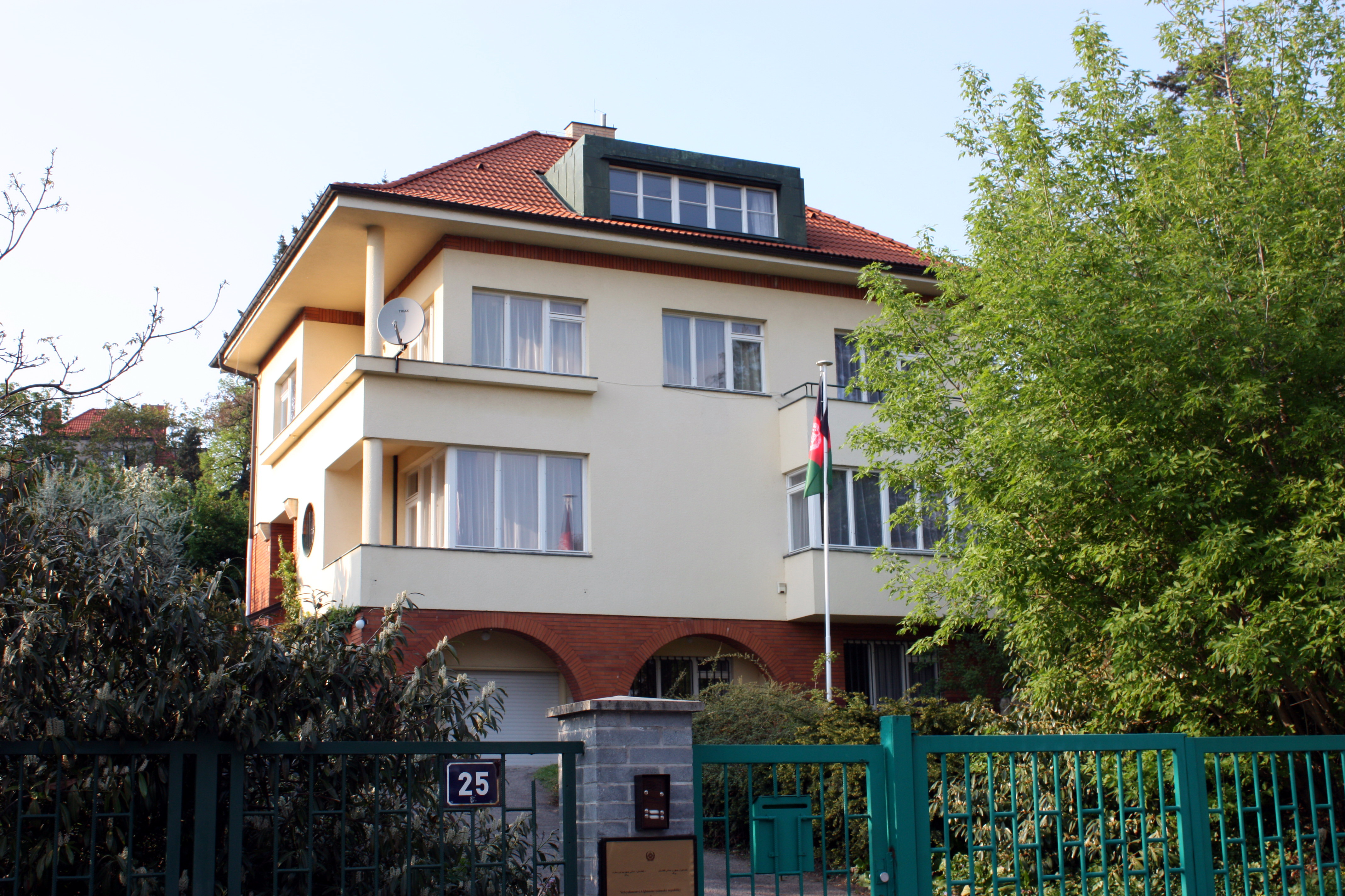 Embassy of Afghanistan in Prague, Komornická 1852/25 Praha 6 – Dejvice, Czech republic.